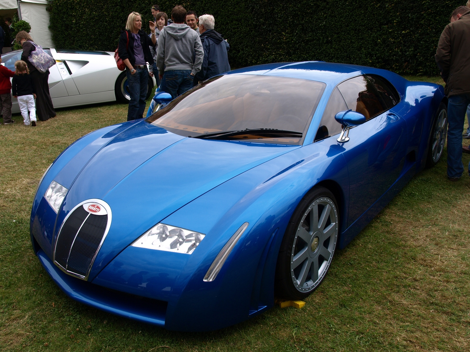 Bugatti Chiron - 12th July 2008